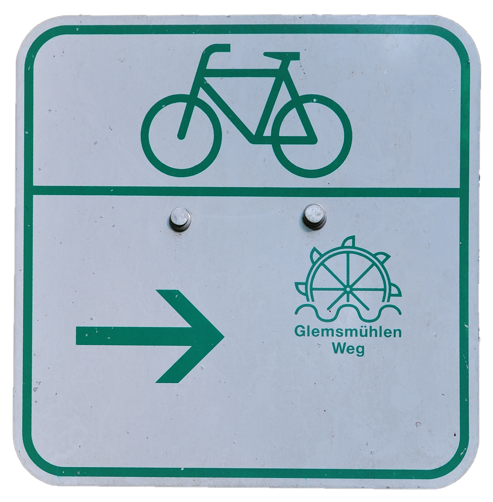 Direction sign of the bicycle route alongside the river Glems, Southern Germany.